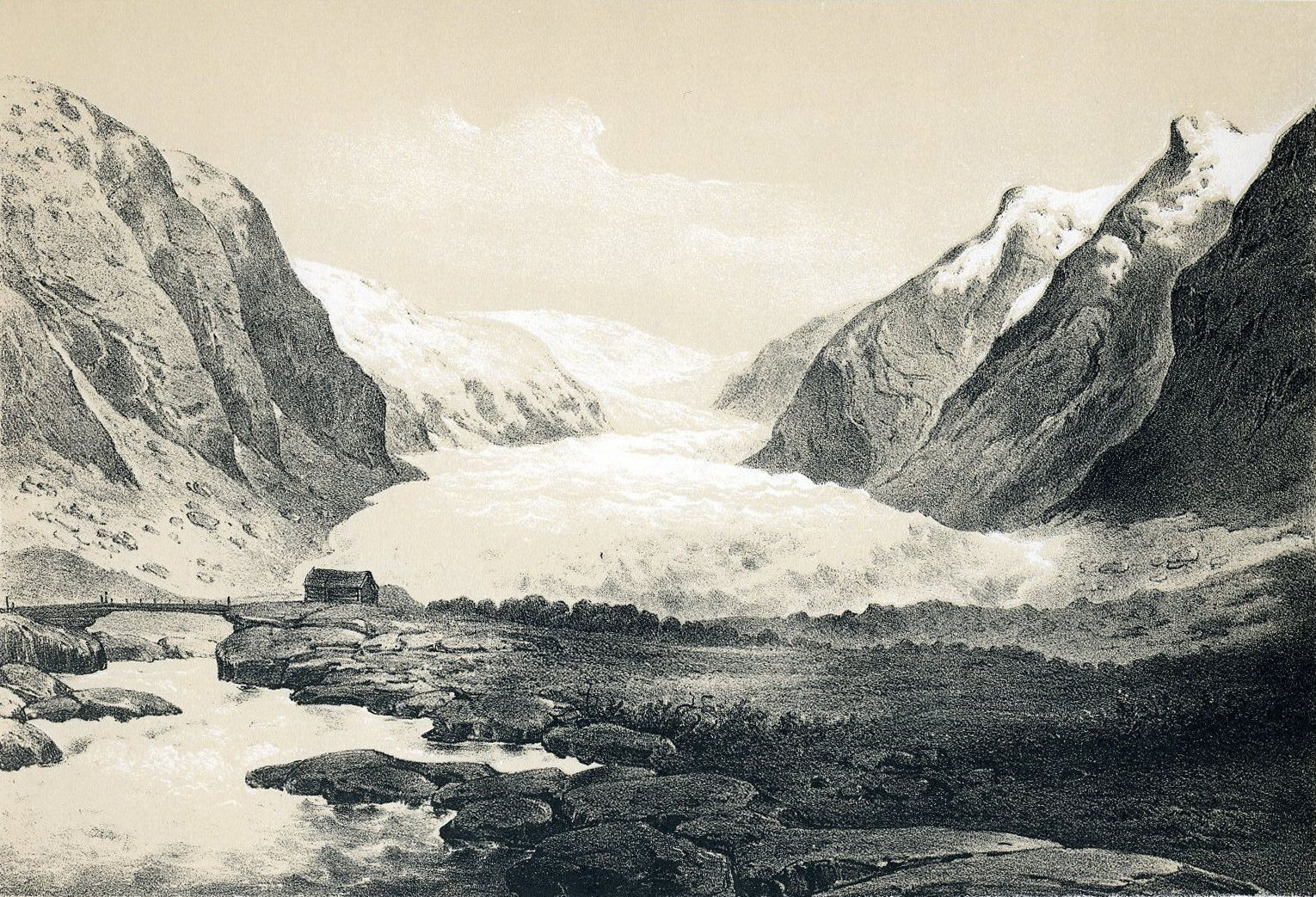 Pictures from the Work "Norge fremstillet i billder" 1848 by Chr. Tønsberg. Jostedal glacier, Nigardsbreen in Jostedalen, Luster Municipality, Sogn og Fjordane county, Norway.